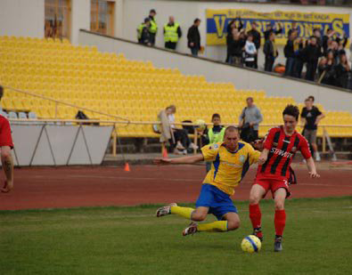 Erikas playing in Alytis